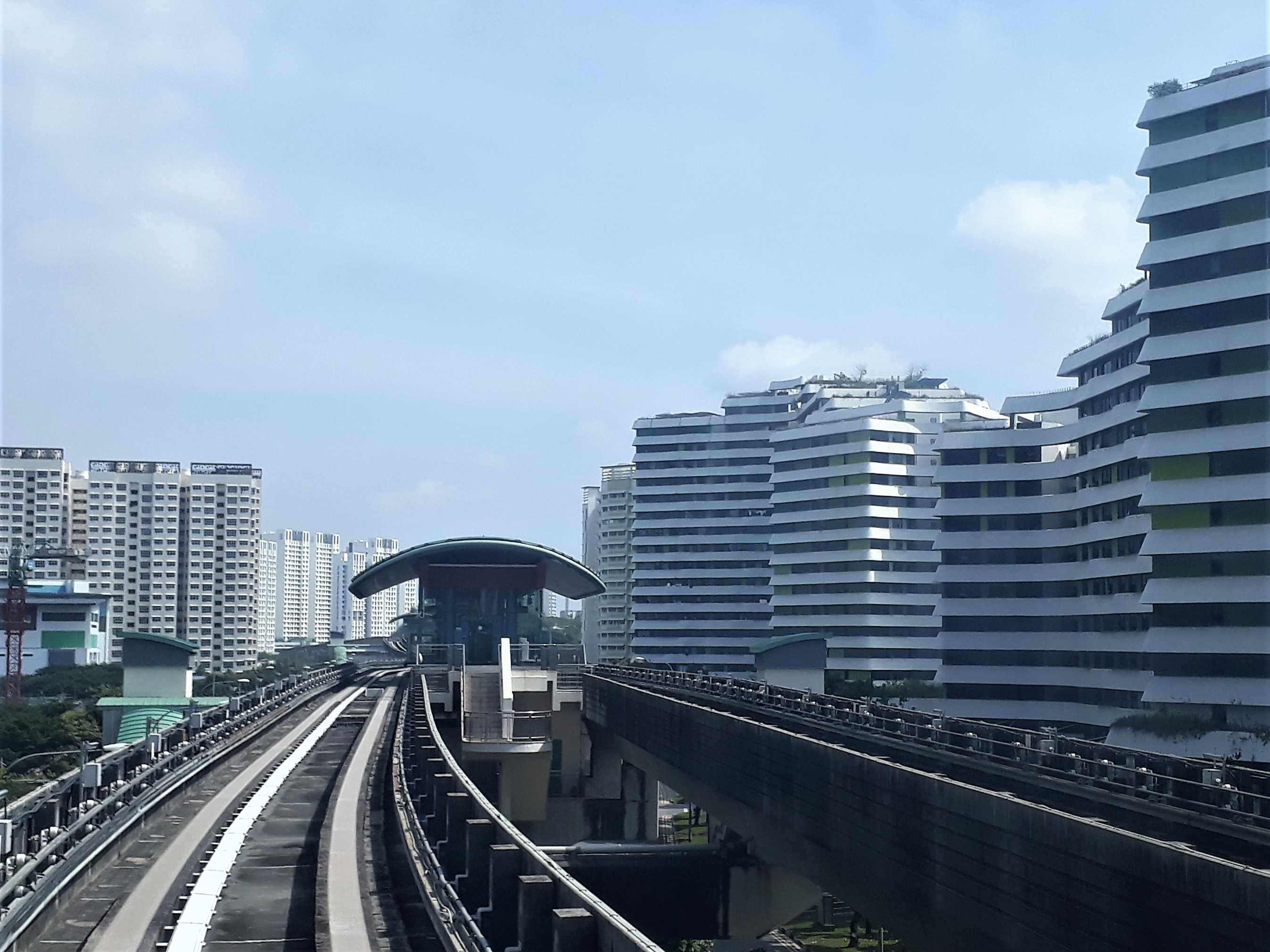 The exterior of Sumang station